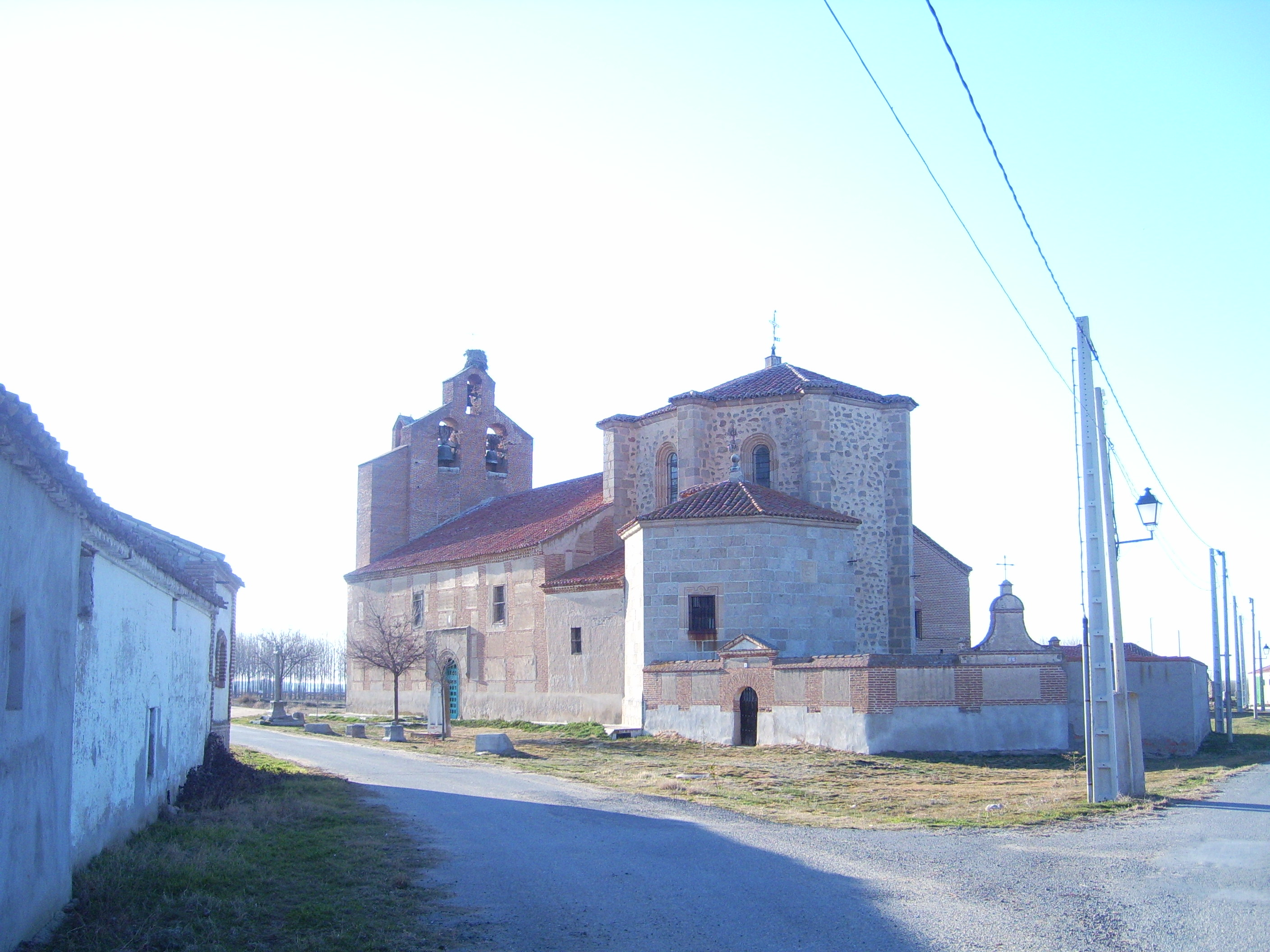 Church of San Juan de la Encinilla